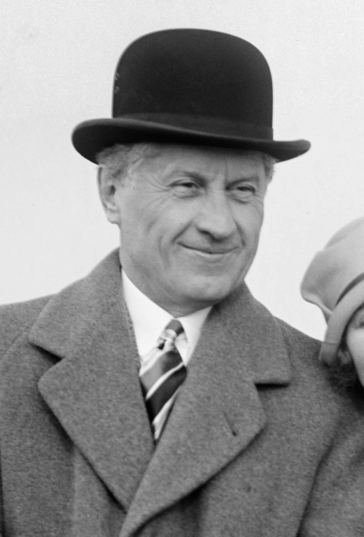 Actor Fred Niblo and wife